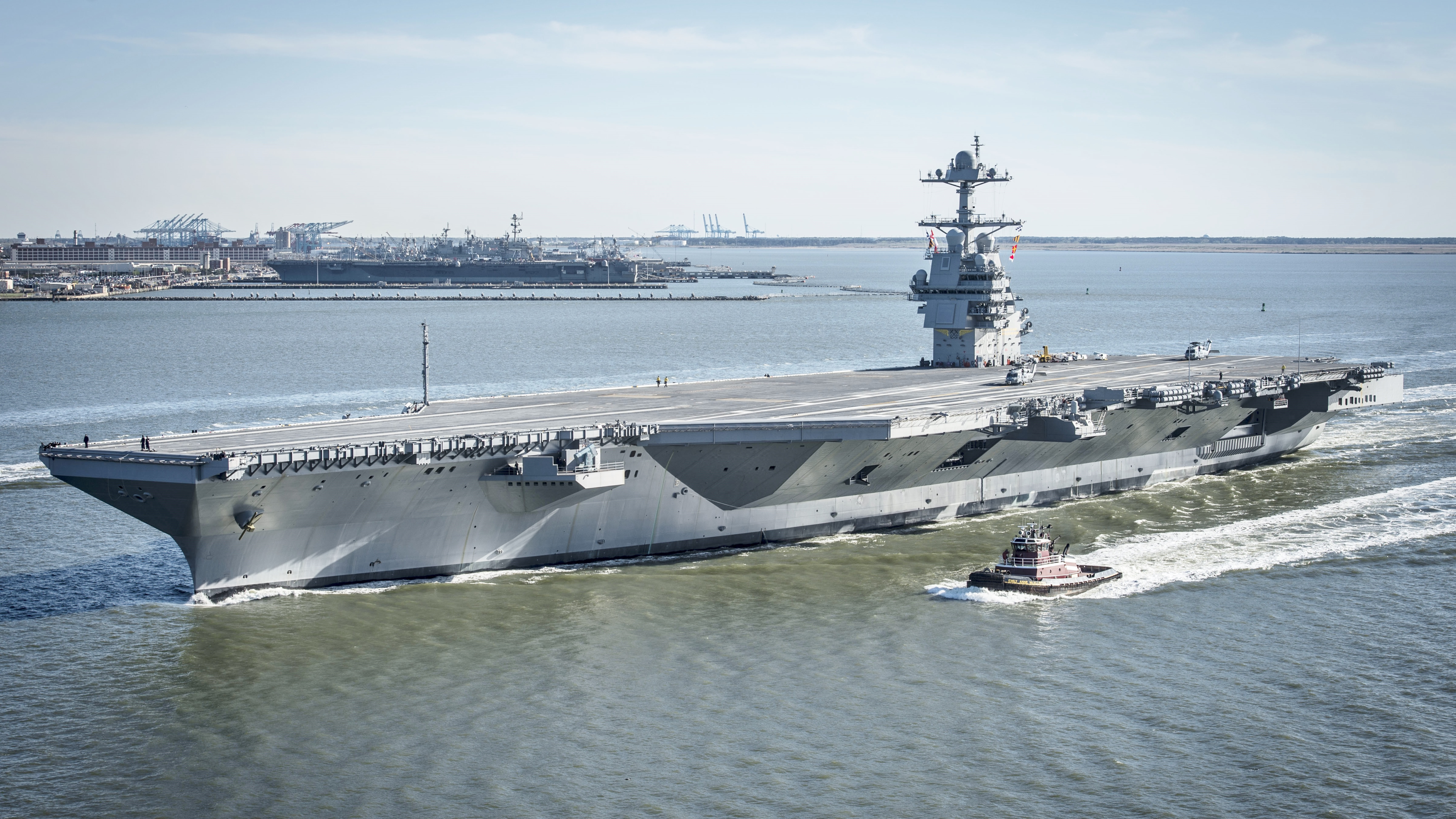 The U.S. Navy aircraft carrier USS Gerald R. Ford (CVN-78) underway on its own power for the first time while leaving Newport News Shipbuilding, Newport News, Virginia (USA), on 8 April 2017. The first-of-class ship -- the first new U.S. aircraft carrier design in 40 years -- spent several days conducting builder's sea trials, a comprehensive test of many of the ship's key systems and technologies. USS George Washington (CVN-73) and the amphibious assault ship USS Kearsarge (LHD-3) are visible in the background.